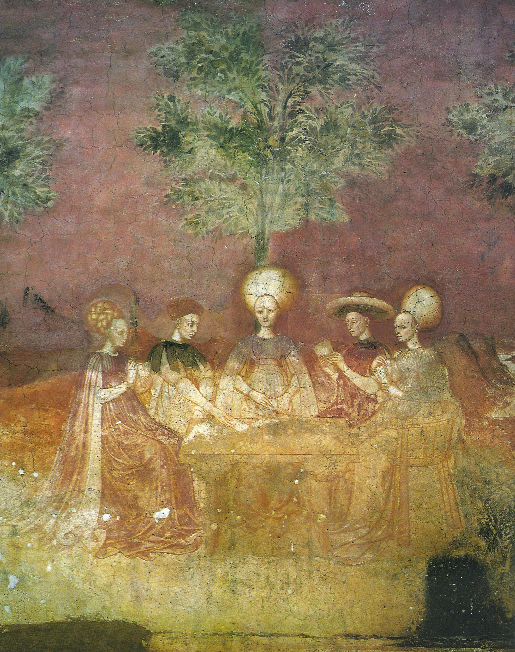 This fresco is commonly known as The Tarocchi Players. It is from the Casa Borromeo, in Milan, and was probably painted in the 1440s.